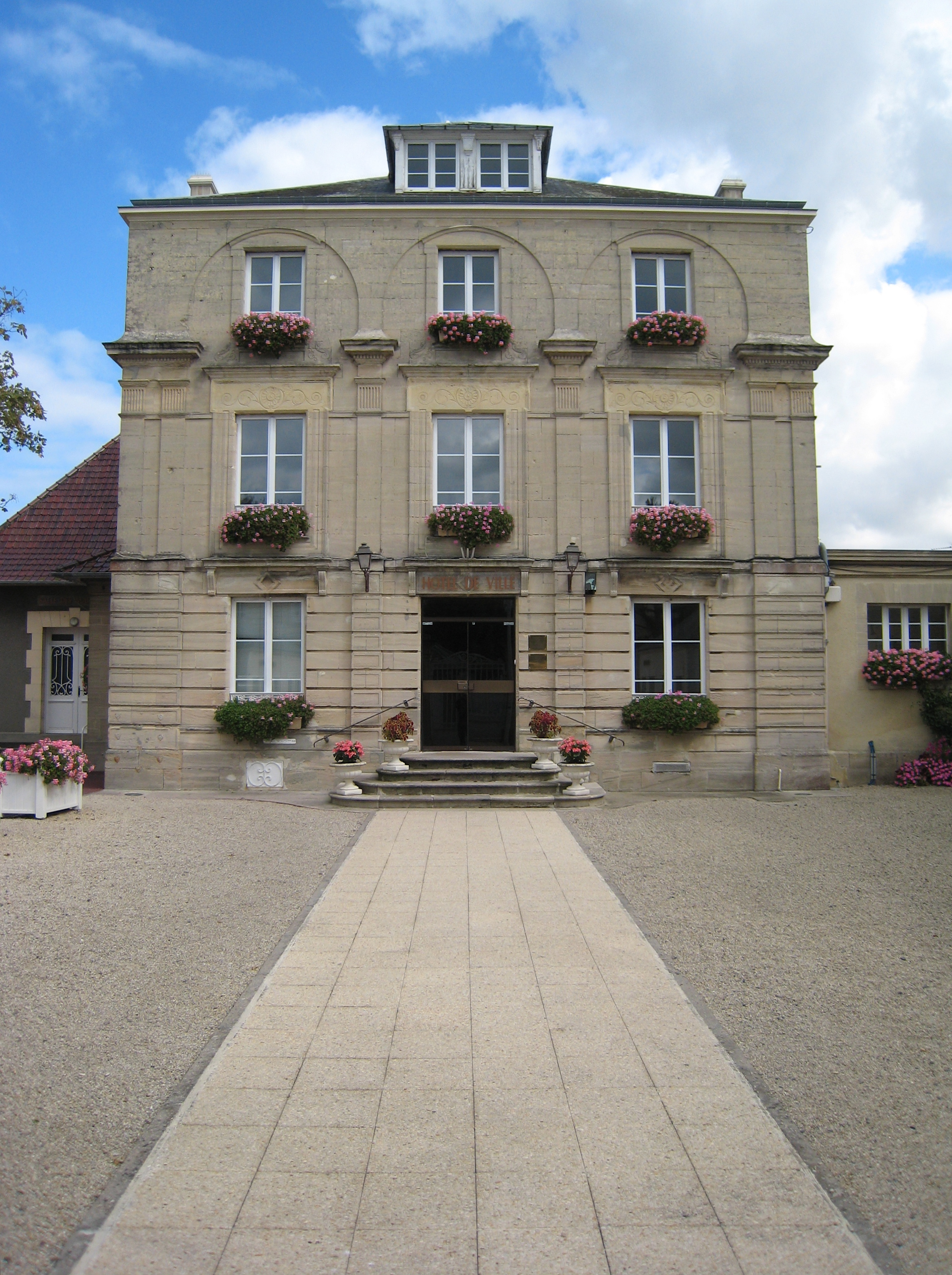 Town hall of Courseulles-sur-Mer (Calvados, France)